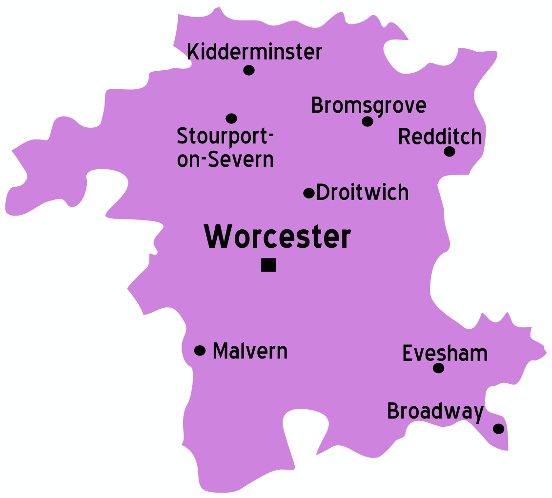 Map of Worcestershire Source: :Image:UK map.svg map: United Kingdom Map of: United Kingdom